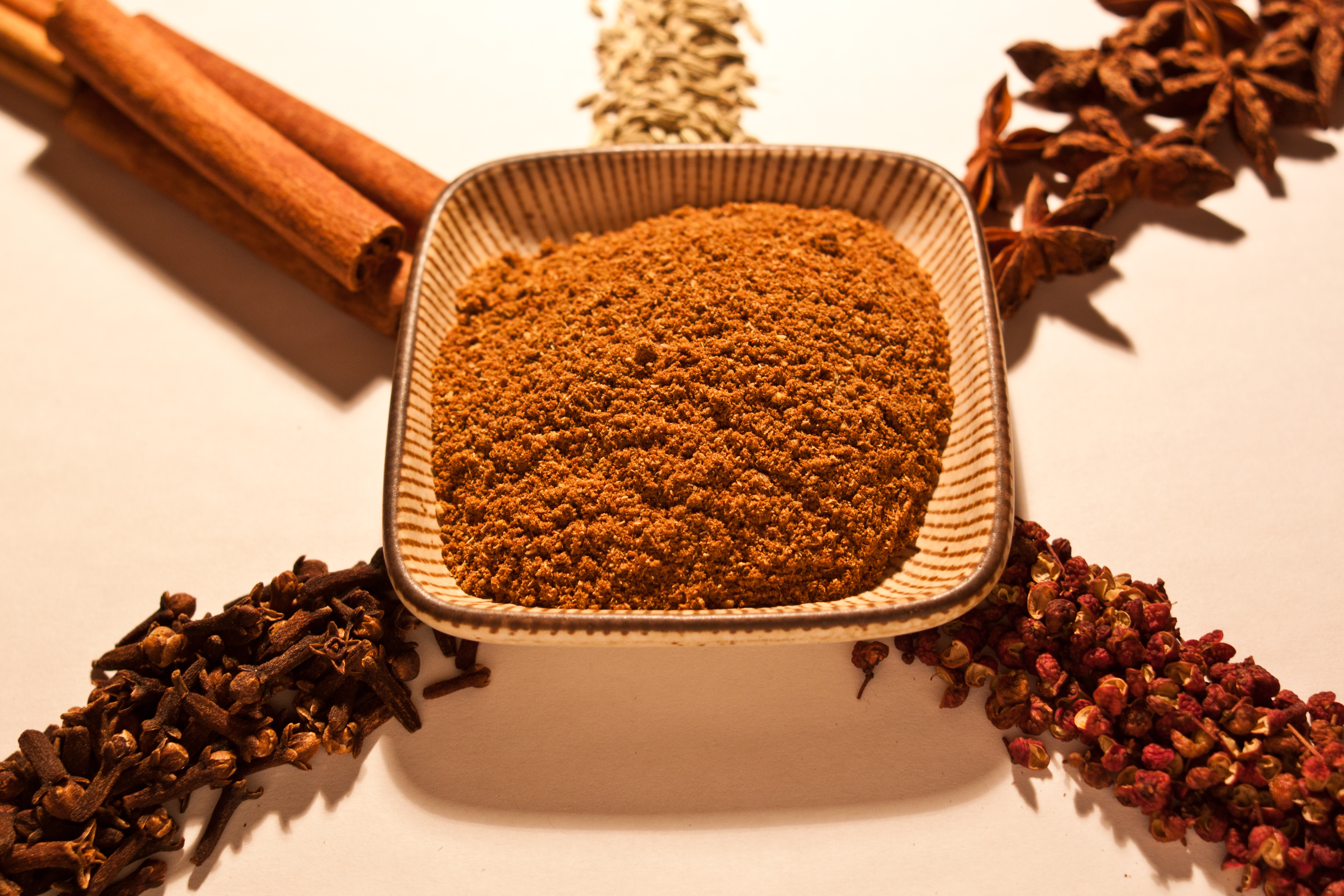 Day 73.I'm coming down with another cold, and I was very busy today, so not much time to shoot. I've been wanting to do some more spice shots, so here is five-spice powder plus the constituent parts (Sichuan peppercorn, cloves, cinannom, fennel seeds, and star anise, clockwise starting in the bottom right). We use it a lot in stir frys and in noodle soups. I couldn't quite get the lighting how I wanted it, but it'll do for today.